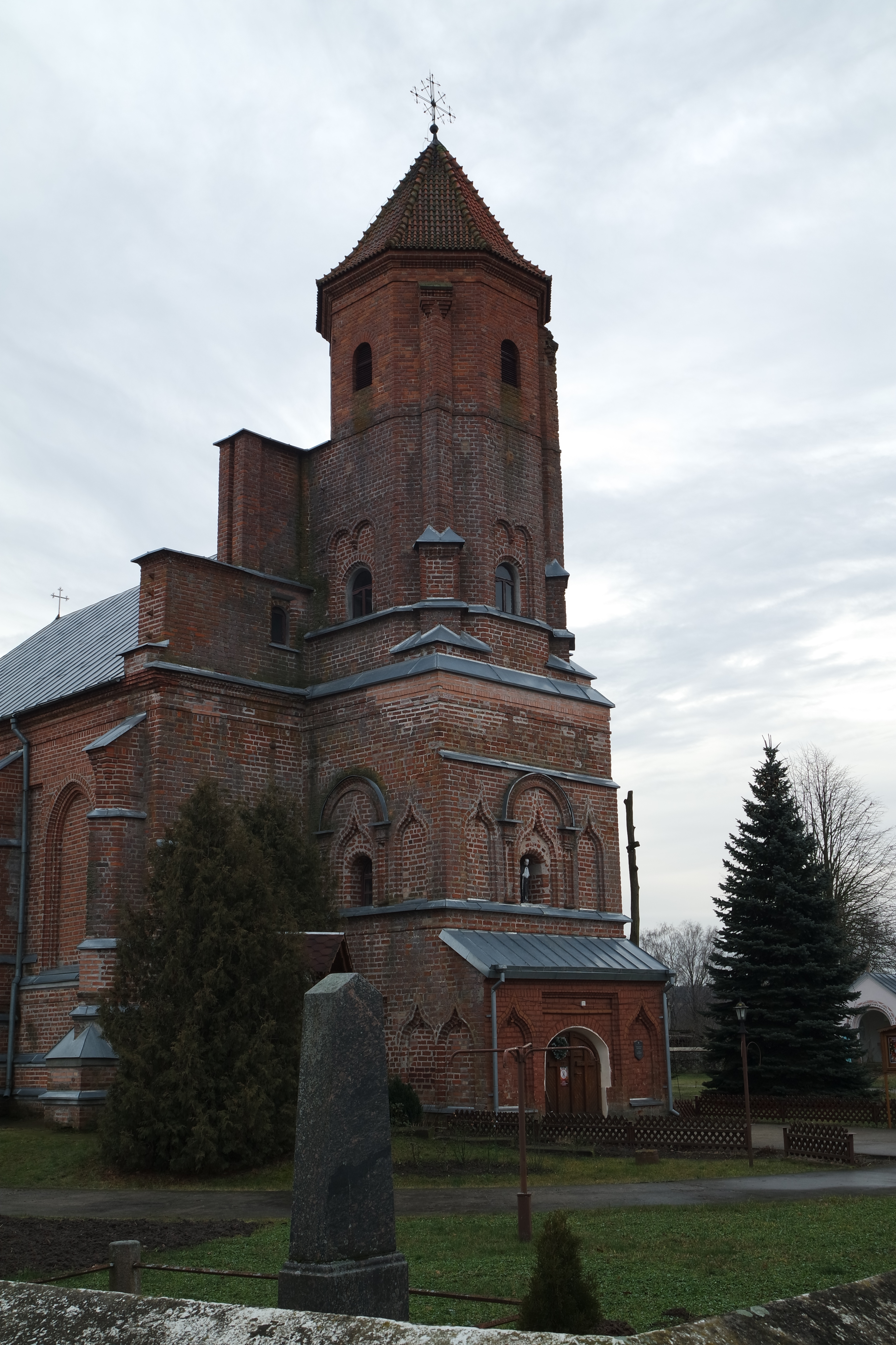 Church of Saint Michael Archangel. Hniezna, Belarus. Беларуская (тарашкевіца): Касьцёл Сьвятога Міхала Арханёла. Гнезна, Беларусь.